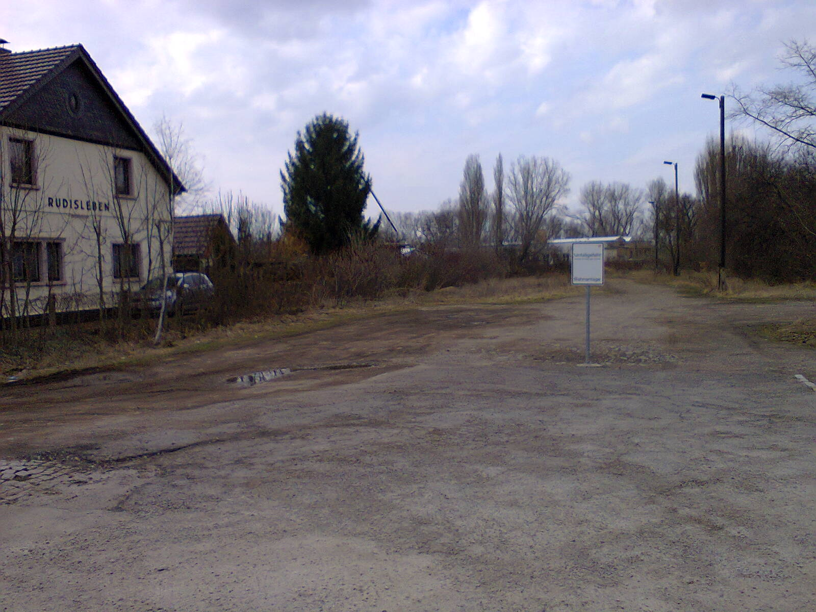 Bahnhof Rudisleben